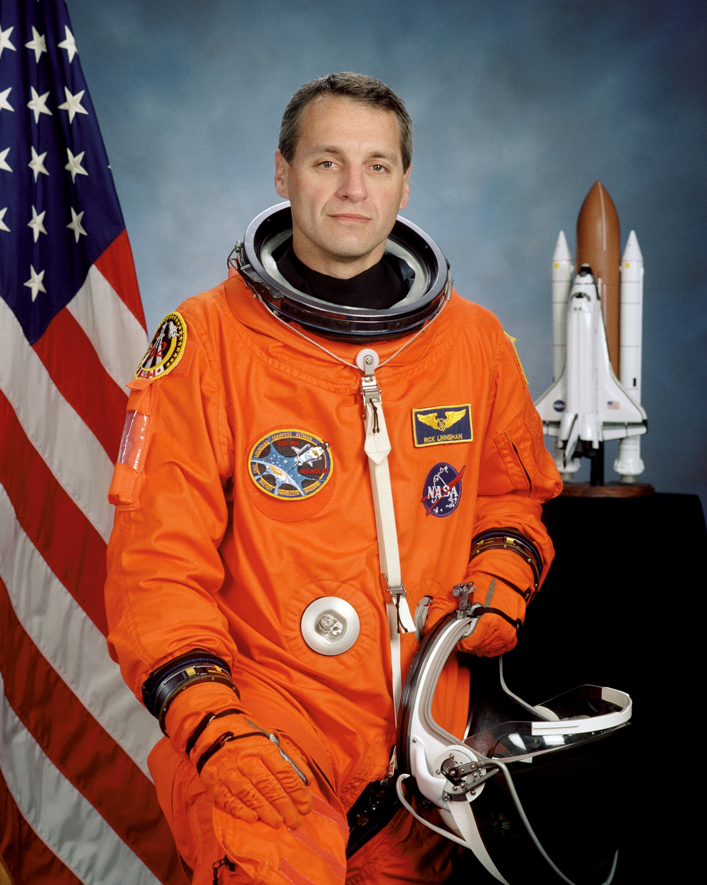 Richard M. Linnehan, mission specialist.